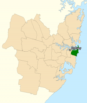 Incorporates or developed using Administrative Boundaries ©PSMA Australia Limited licensed by the Commonwealth of Australia under Creative Commons Attribution 4.0 International licence (CC BY 4.0). Derived from State and Territory Boundaries from the Australian Bureau of Statistics under Creative Commons Attribution 2.5 Australia license (CC BY 2.5 AU)